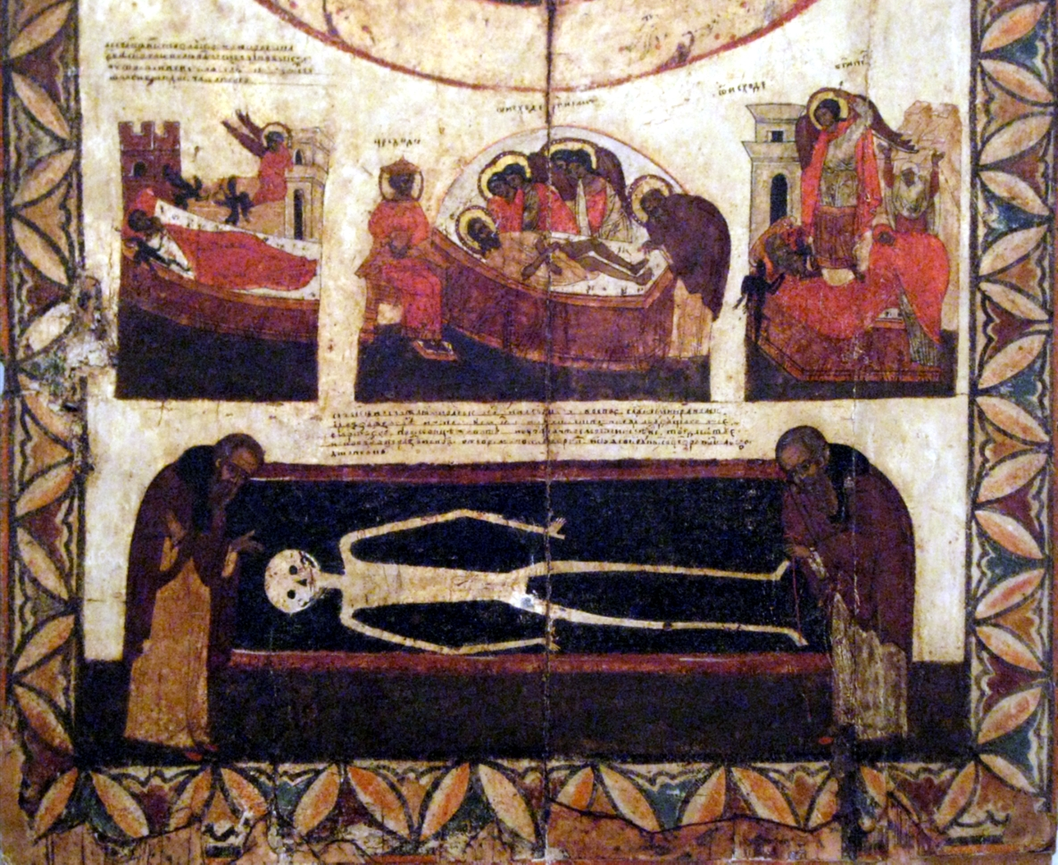 North door of iconostasis: fragment. top: Parable about the souls of Righteous Man and of a Sinner; bottom: Saint Sisoes the Great at the tomb of Alexander the Great.